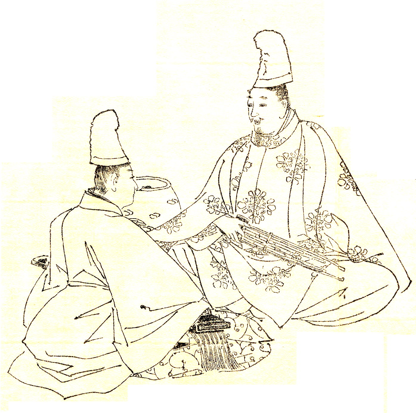 Minamoto no Makoto (源信) was the seventh son of the Japanese Emperor Saga.This picture was drawn by Kikuchi Yosai（菊池容斎） who was a painter in Japan.